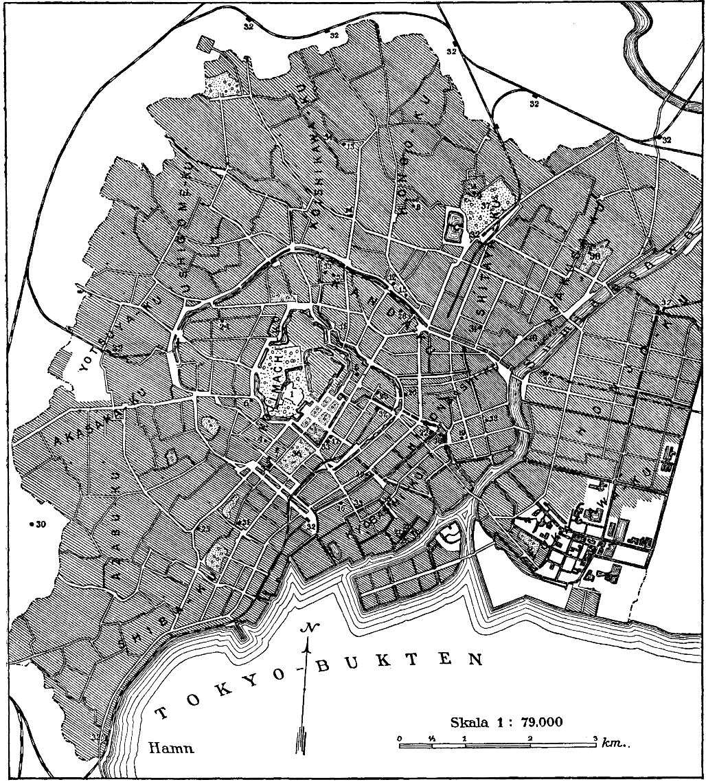 Map of Tokyo from about 1919